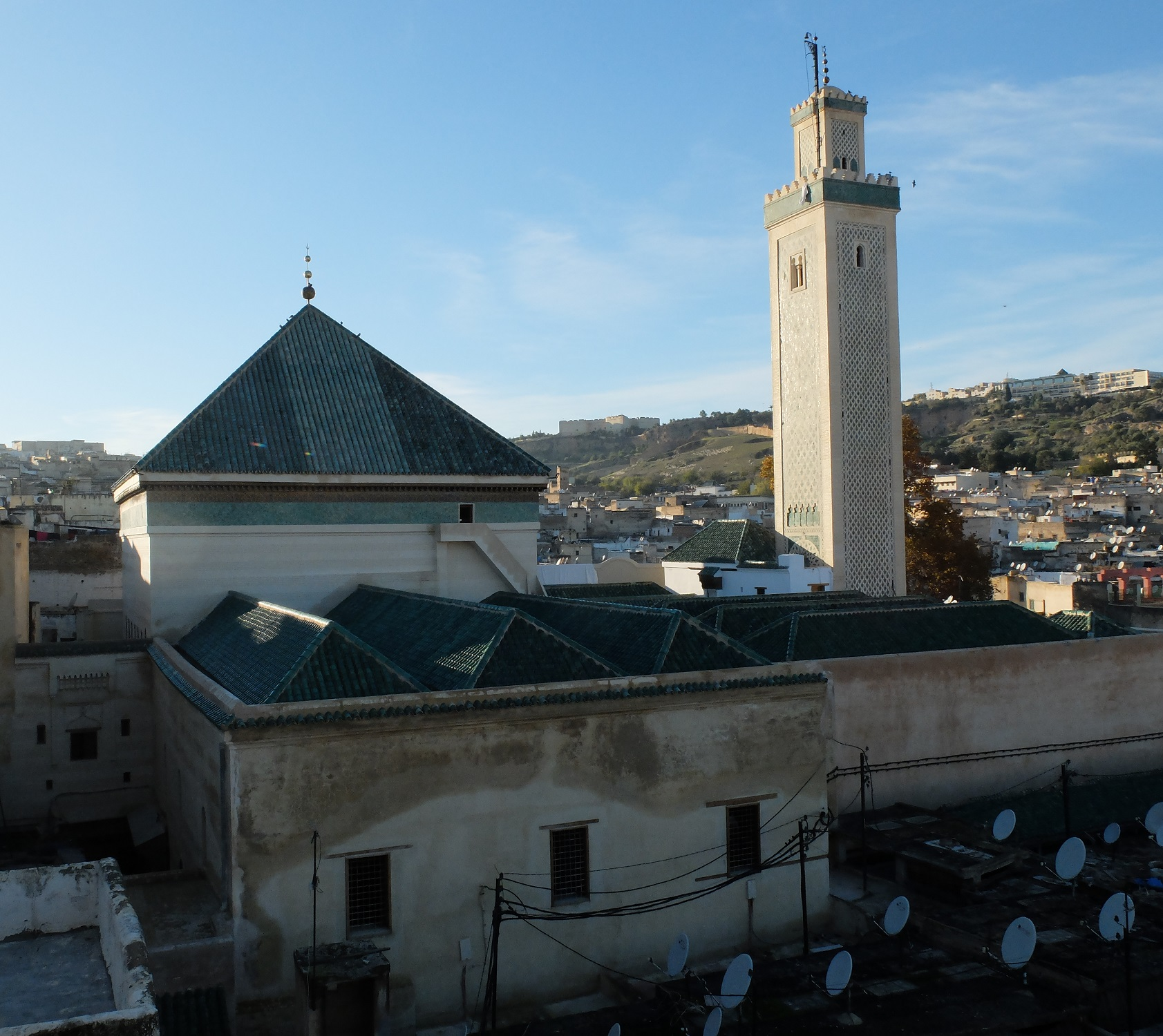 View of the Zawiya of Moulay Idriss II, seen from one of the nearby rooftops on the east side.